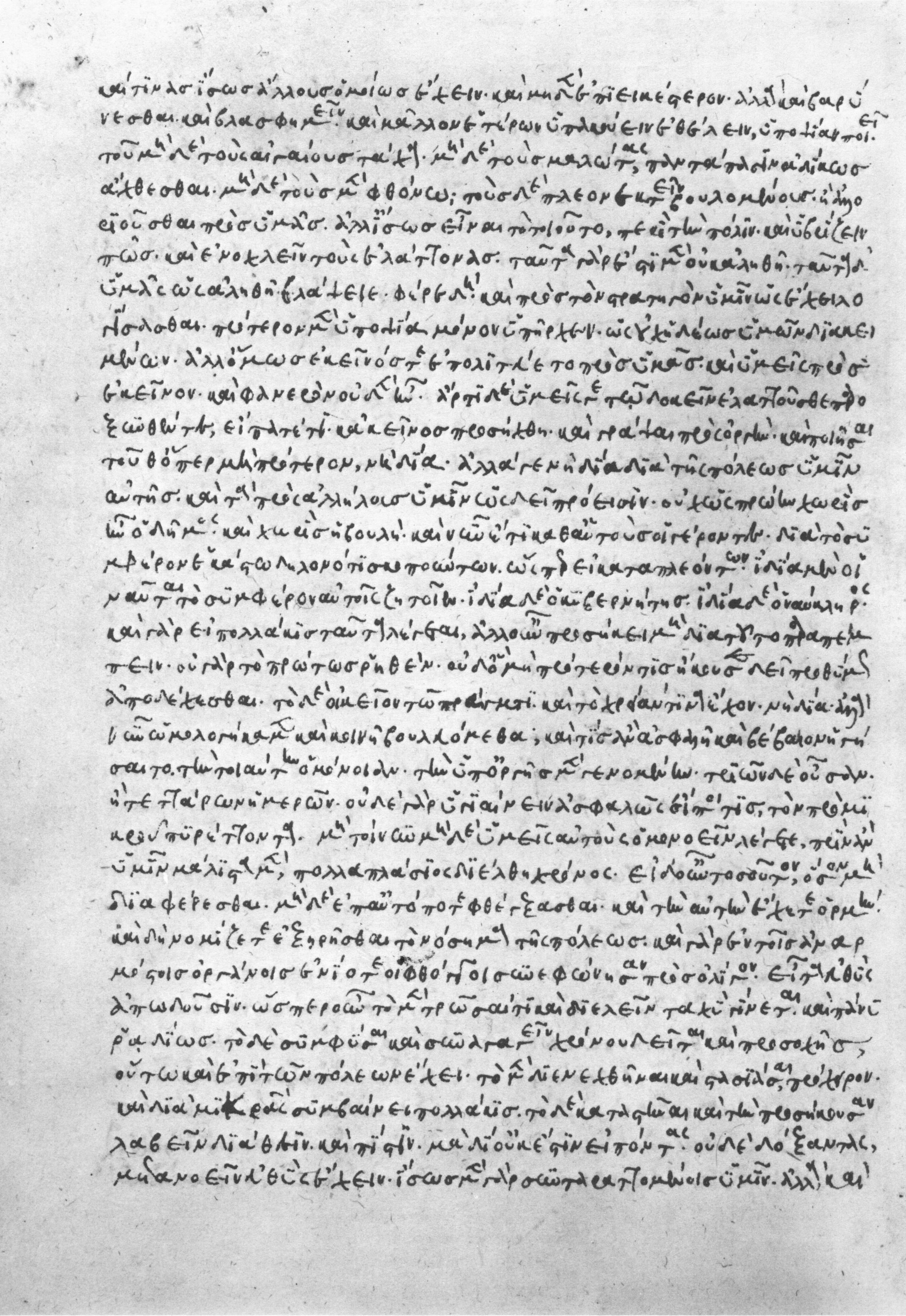 Dion Chrysostom, Speeches, in ms. Florence, Biblioteca Medicea Laurenziana, Conventi soppressi 114, fol. 141v.